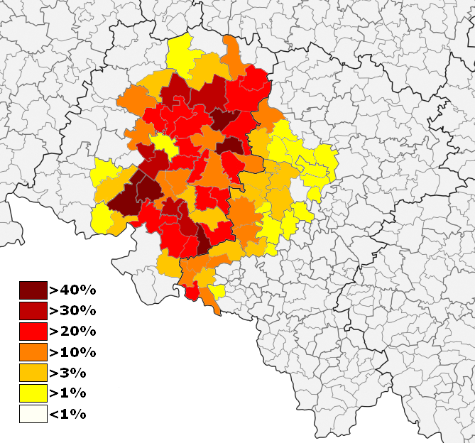 Map showing geographical spreading of the German minority in Upper Silesia (Poland) according to the National Census in Poland of 2002 (Polish Statistical Office).